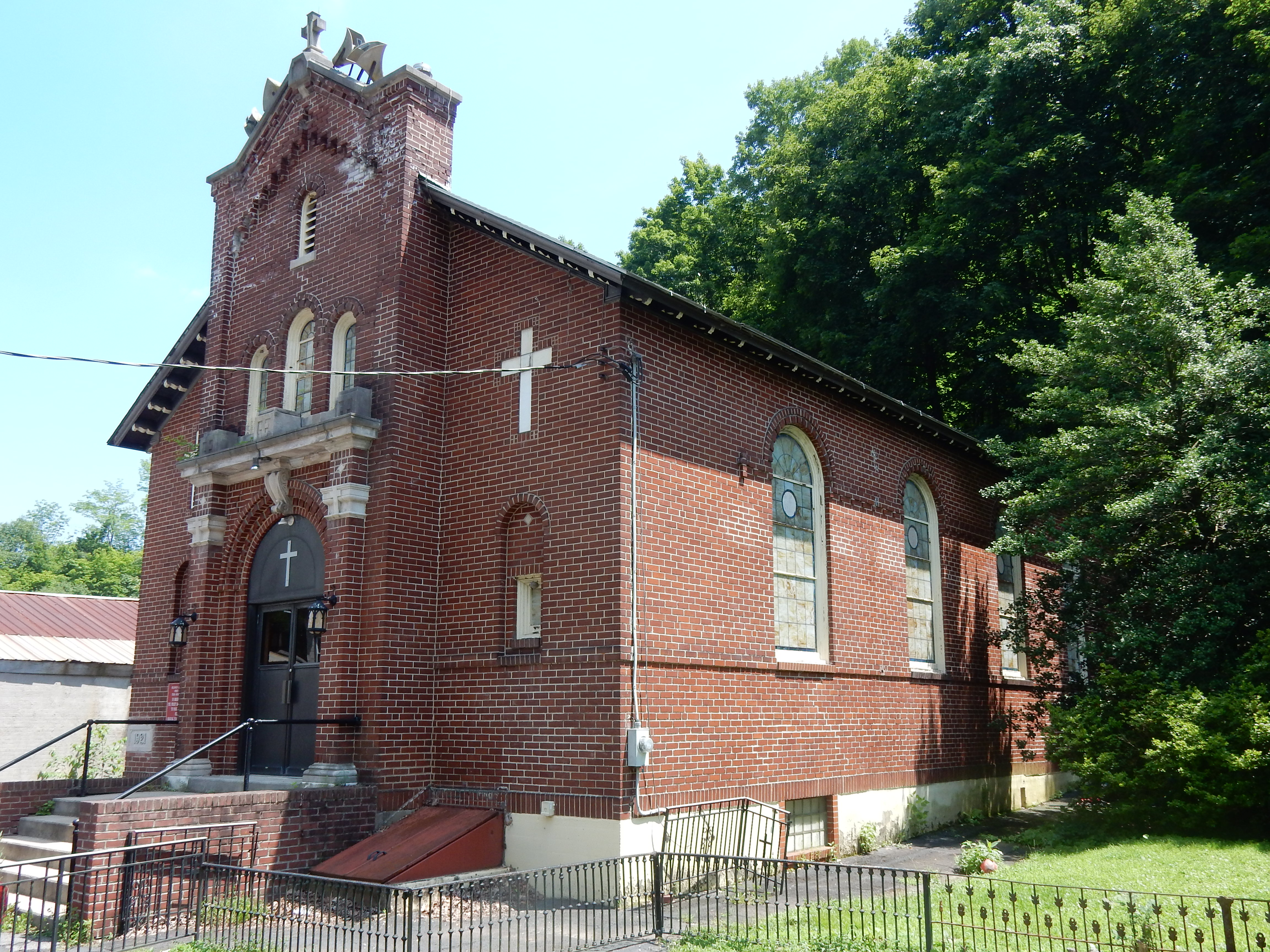 Former, St Francis De Sales Catholic Church (built 1921), @ former location, 49 Main St., Mount Carbon, Schuylkill County, Pennsylvania. The former Church and adjoining Rectory were closed by a movemenet within the diocese of Allentown in 2008 and merged with St. Patricks Parish of Pottsville, Pa. The parish proest was reassigned to a parish in Girardville, Pa. The property has since been subdivided into separate parcels. The former church is now located @ 45 main st. and is now privately owned, and the former Rectory is located at the original location of, 49 main st. and is now privately owned.